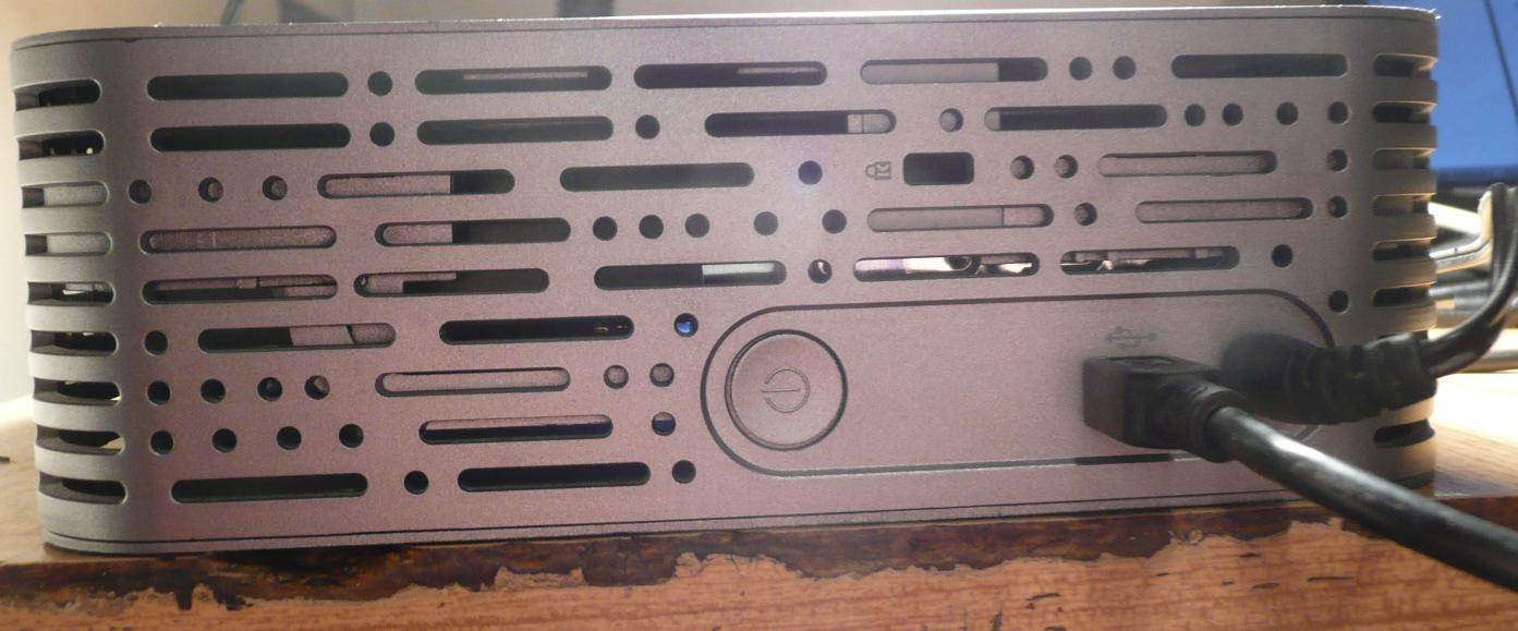 A Western Digital My Book disk.